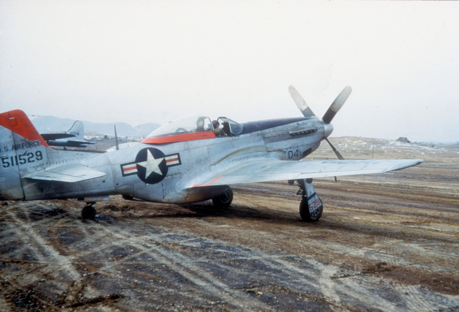 A U.S. Air Force North American F-51D-25-NT Mustang fighter (s/n 45-11529) of the 12th Fighter-Bomber Squadron, 18th Fighter-Bomber Group, in Korea. This aircraft crashed near the Taedong River, North Korea on 9 June 1951. Note the Boeing B-17 Flying Fortress transport in the background.